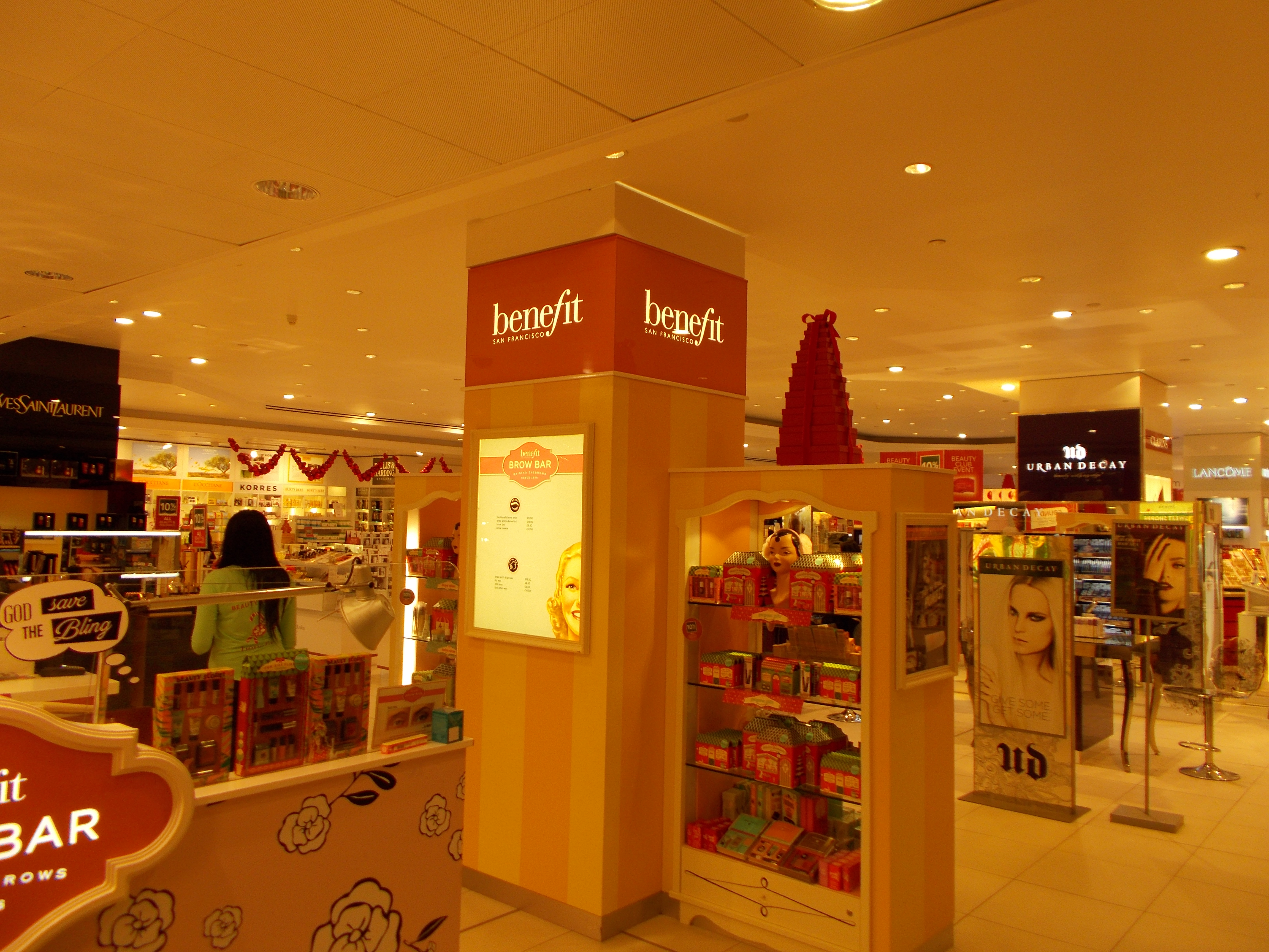 The Benefit cosmetics stand in the Debenhams store in Sutton, Surrey, Geeater London